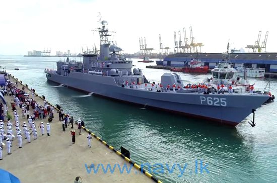 he P 625 vessel taken over from the People's Republic of China on 05th June 2019, to increase the operational capabilities of the Sri Lanka Navy, arrived at the port of Colombo this morning (08th July 2019).